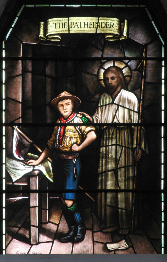 Holy Cross, Hornchurch Road, Hornchurch - Window